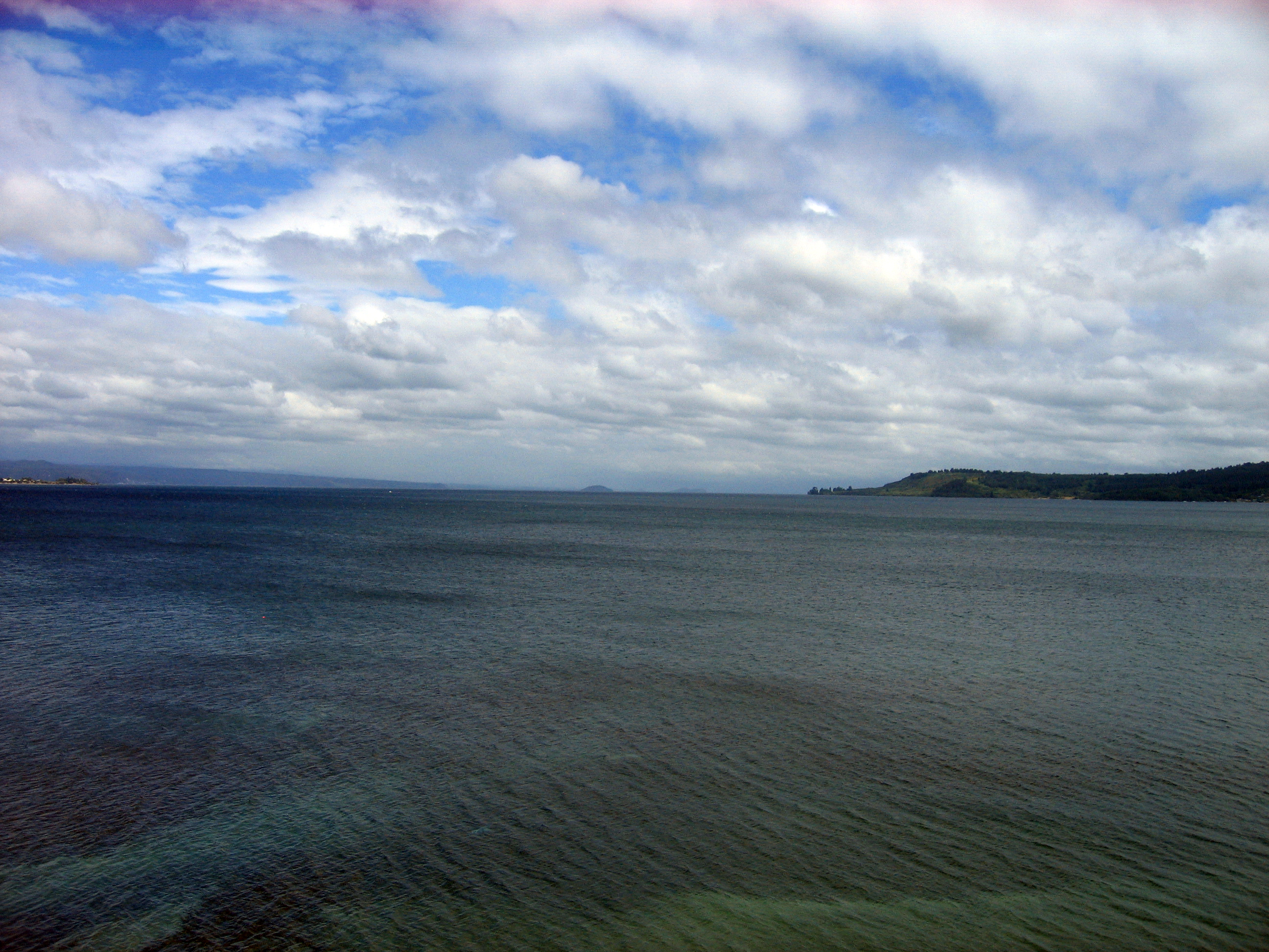 Lake Taupo, New Zealand